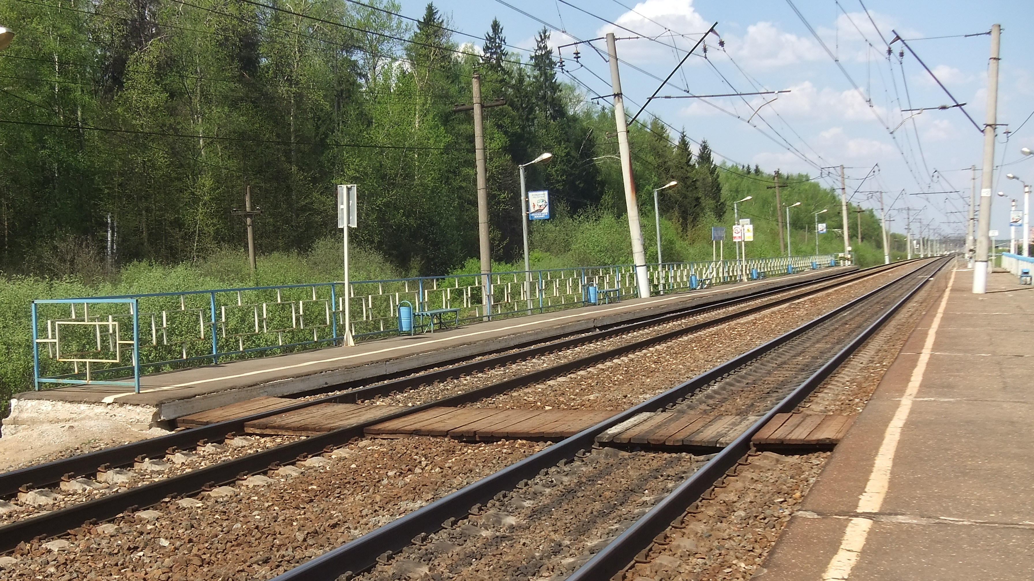 Bekasovo-Tsentralnoe railway platform. View to short platform.